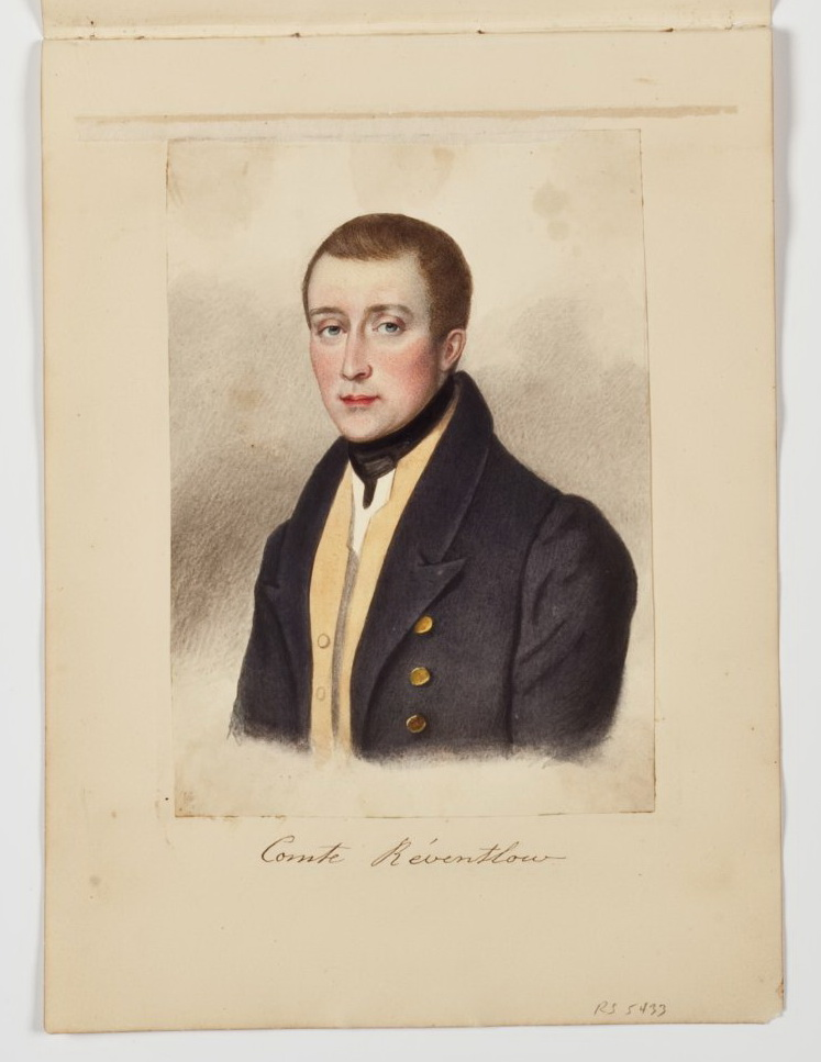 The Middleton Watercolor Album consists of a collection of 45 watercolor portraits bound in leather covers with neo-gothic embossing and a gilt bronze clasp in the same style. The album relates to the Middleton family of South Carolina, from which it descended until Hillwood purchased it in 2004. Williams Middleton—who was secretary to his father, Henry Middleton, the American minister to St. Petersburg from 1820 to 1830—assembled this album. The artist of many of the watercolors, most of which are unsigned, is likely Middleton's sister, Maria Henrietta, who studied painting during her years in St. Petersburg with her governess, Madame Mathes, who also painted miniatures. Two watercolors, including this portrait of the Countess Bobrinsky, are signed by the well-known Russian watercolorist Petr Sokolov. The portraits are of Russians and people in the foreign community who were close associates of the Middleton family. Their portraits provide an extraordinary commentary on the fashion and hairstyles of the 1820s.